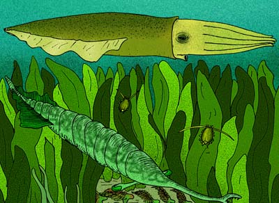 reconstruction of the coleoid cephalopod Jeletzkya douglassae of the Mazon Creek Fauna of Carboniferous Illinois.